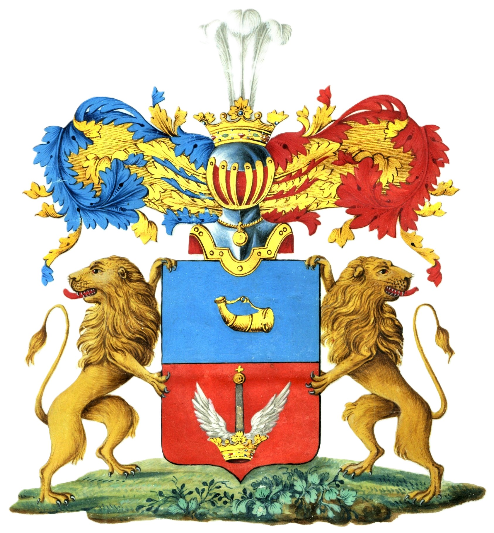 Coat of Arms of Tyutchev family